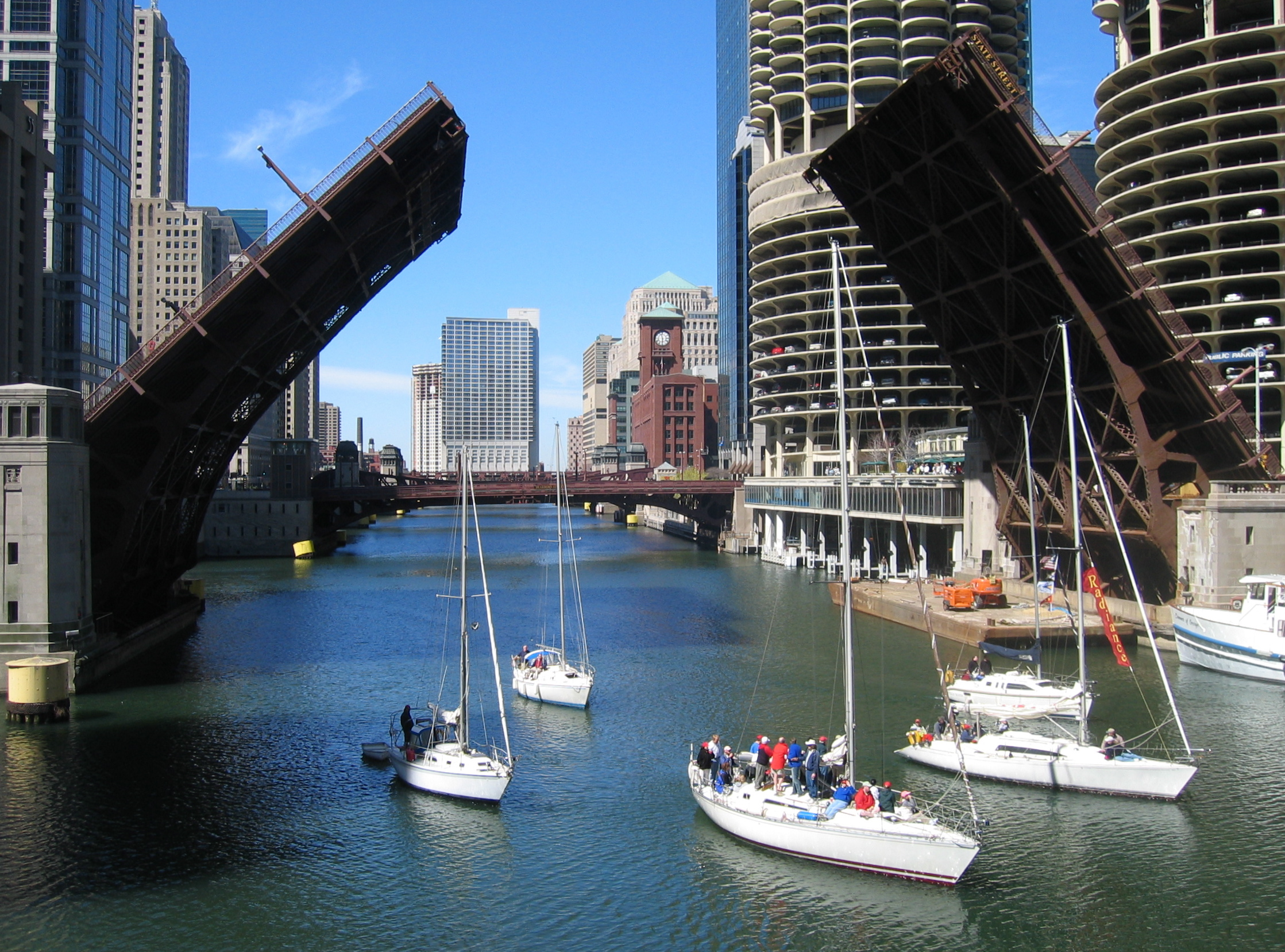 A small flotilla of boats passes through the open State Street Bridge on the Chicago River, Chicago, Illinois.